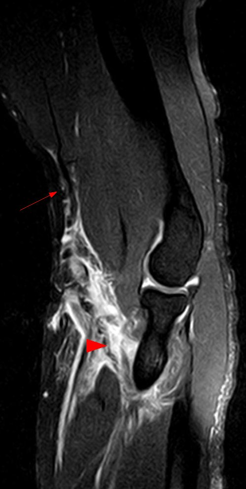 Tear of the distal biceps tendon on the radius approach (arrow). The tendon stump is pulled through the muscle to the top (thin arrow).